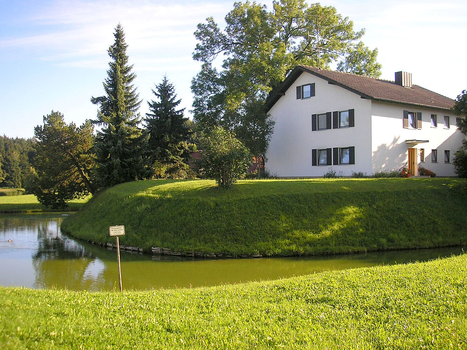 Former Eresing castle (Eresing, Landkreis Landsberg am Lech, Upper Bavaria, Germany). Moat and castle hill from the north east